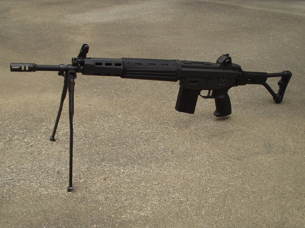 Tokyo Marui AEG Howa Type89-Rifle Folding Stock Ver.